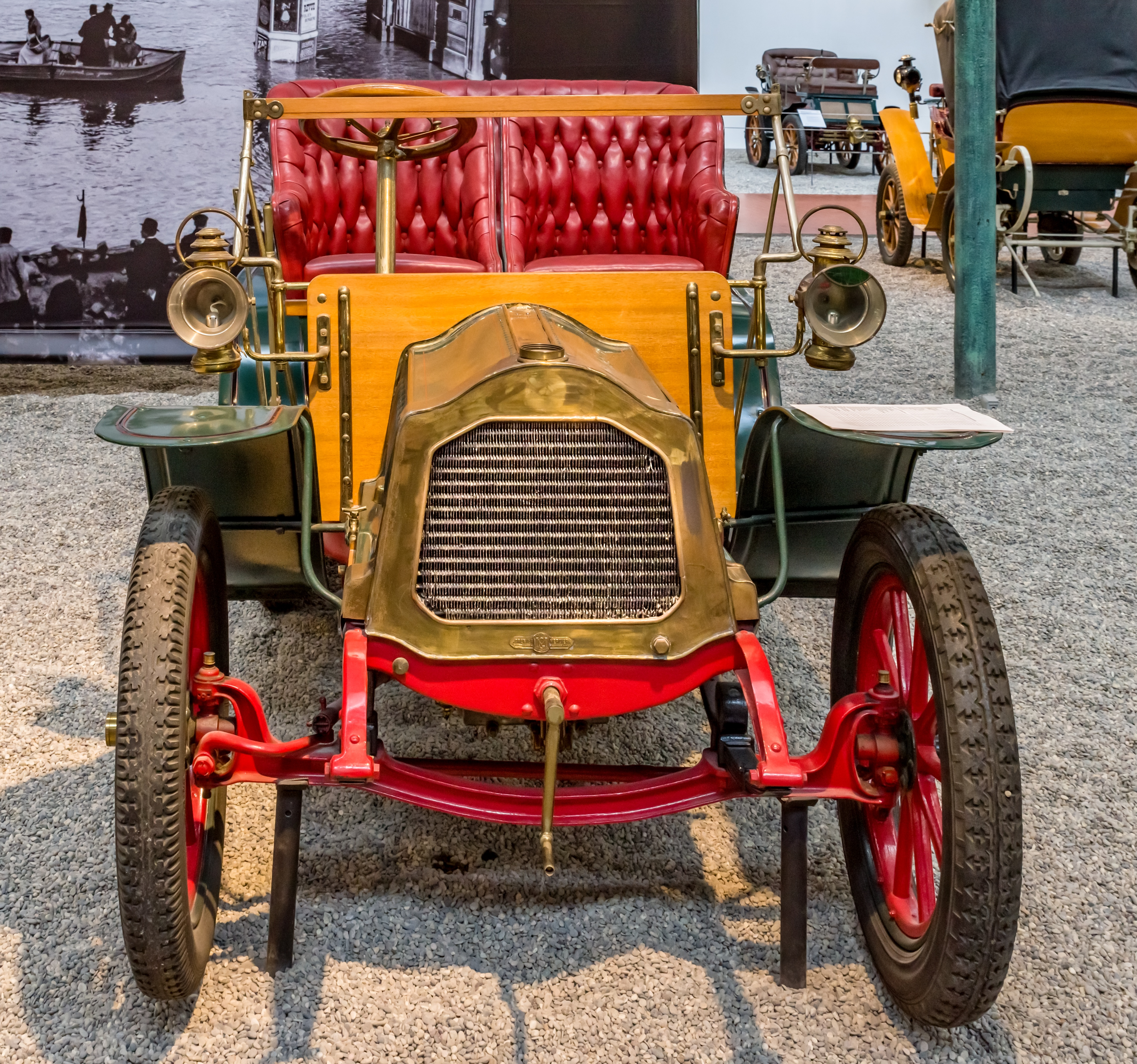 pictures from the Cité de l’Automobile – Musée National – Collection Schlump in Mulhouse, France ptictures from the 10. may 2018